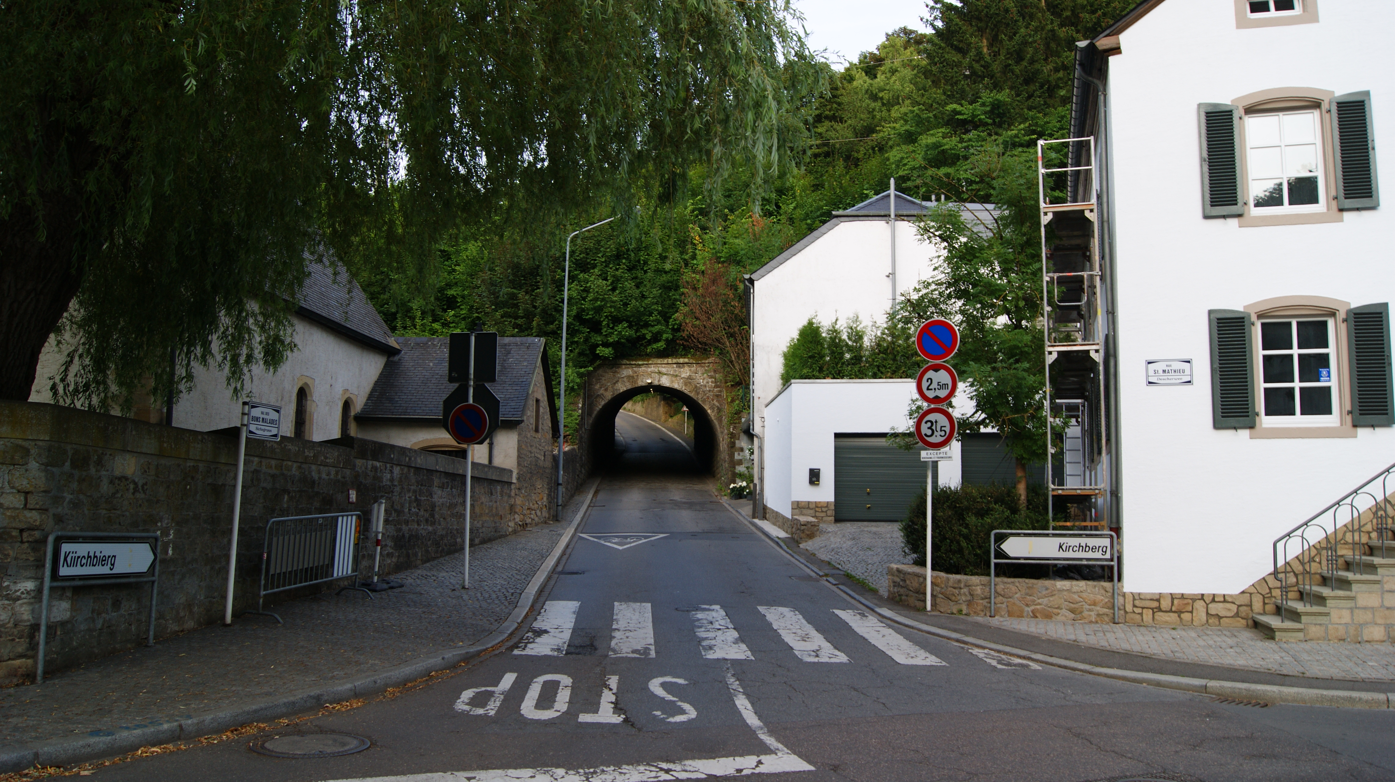 District Pfaffenthal in the city of Luxembourg in the Grand Duchy of Luxembourg. Rue Saint-Mathieu turn off to Kirchberg.